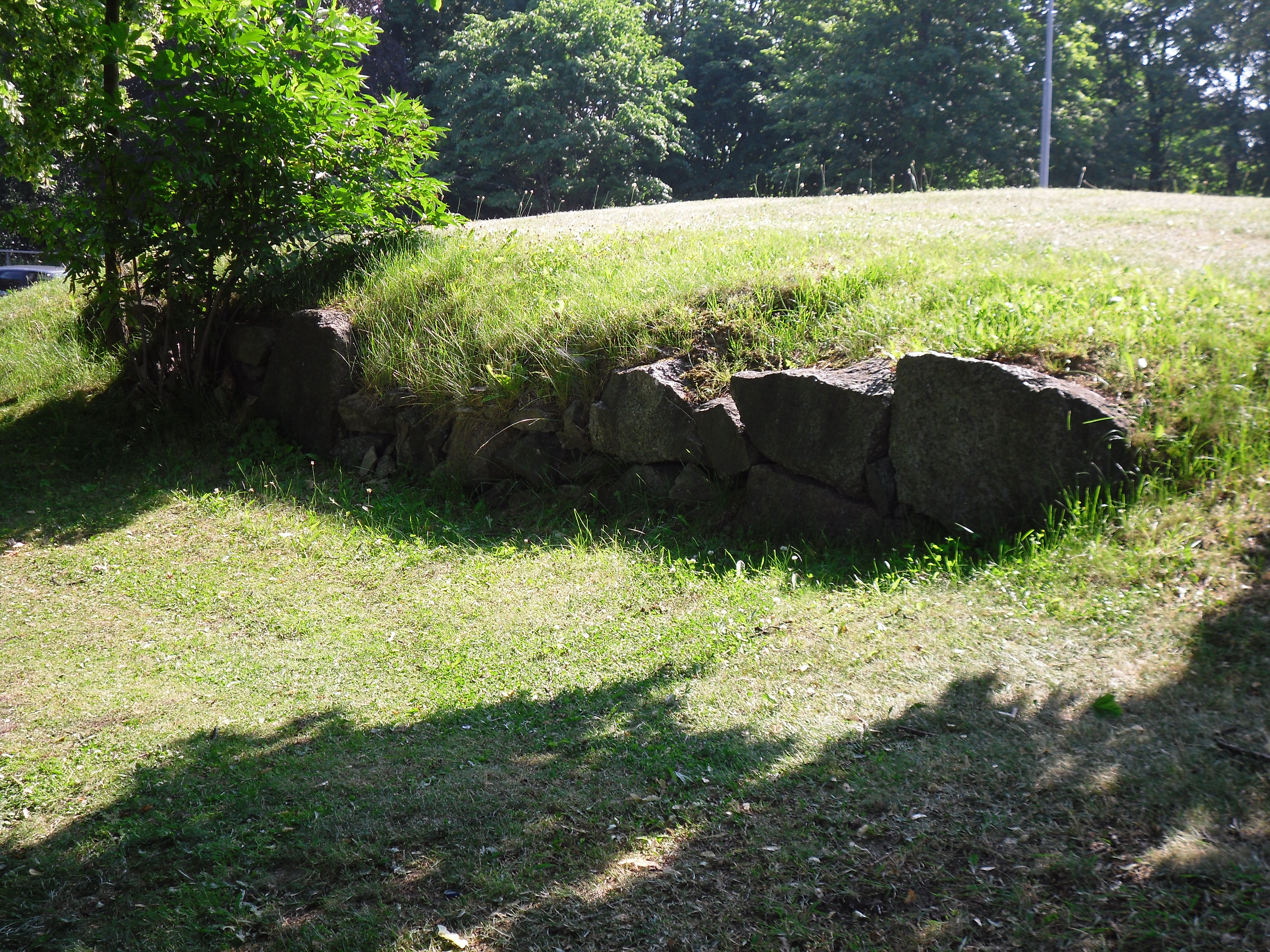 Ruins after Motala Manor, Sweden